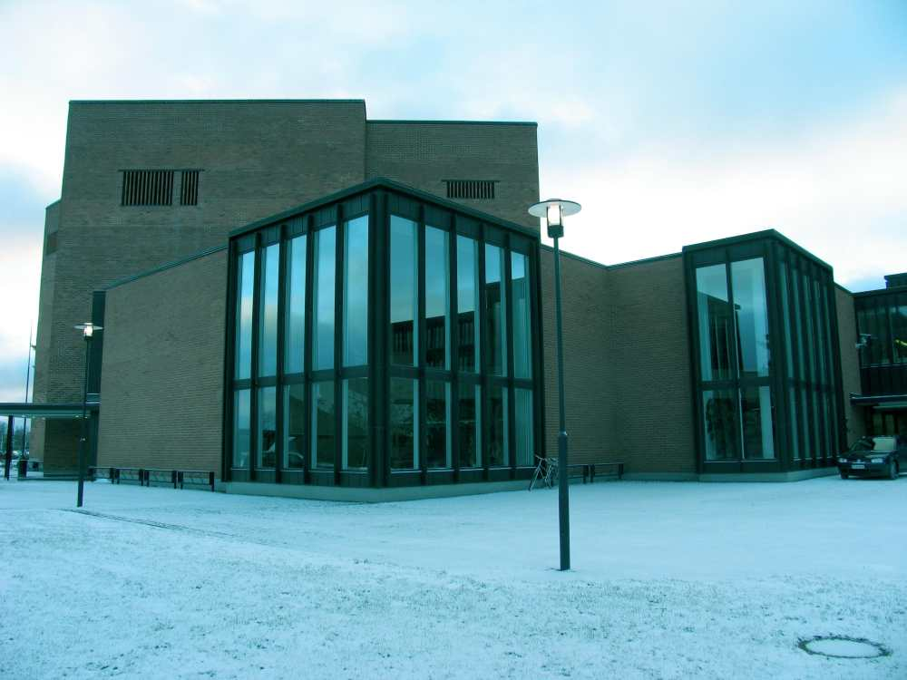 University of Eastern Finland, Carelia building of the Joensuu Campus